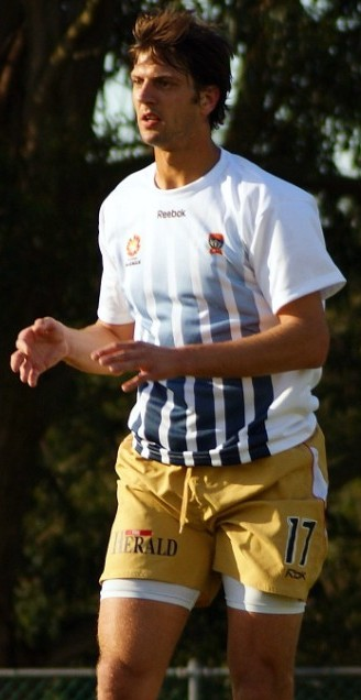 Antun Kovacic at Newcastle Jets training